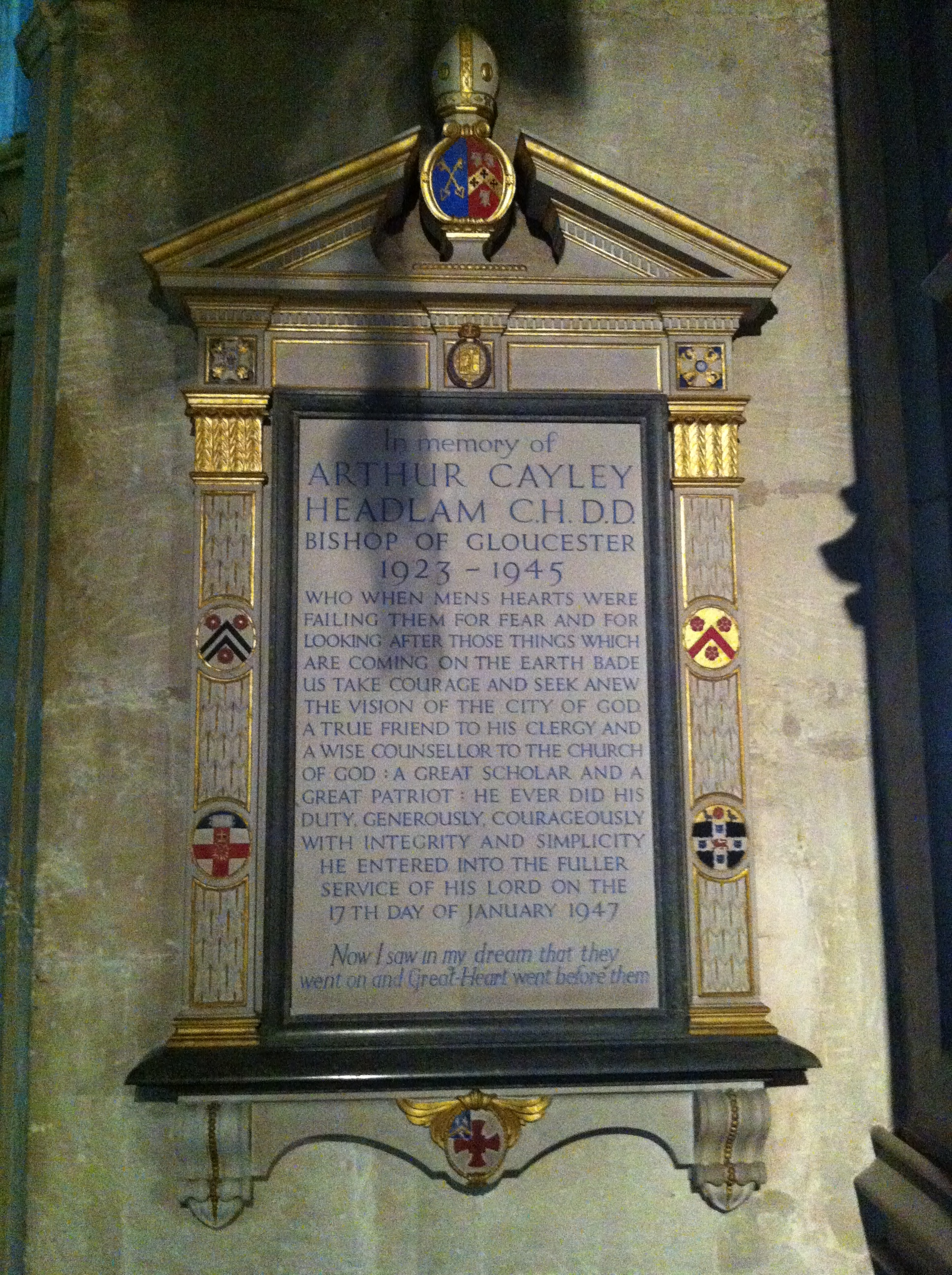 In Memory of Arthur Cayley Headlam C.H. D.D. Bishop of Gloucester 1923 - 1945.